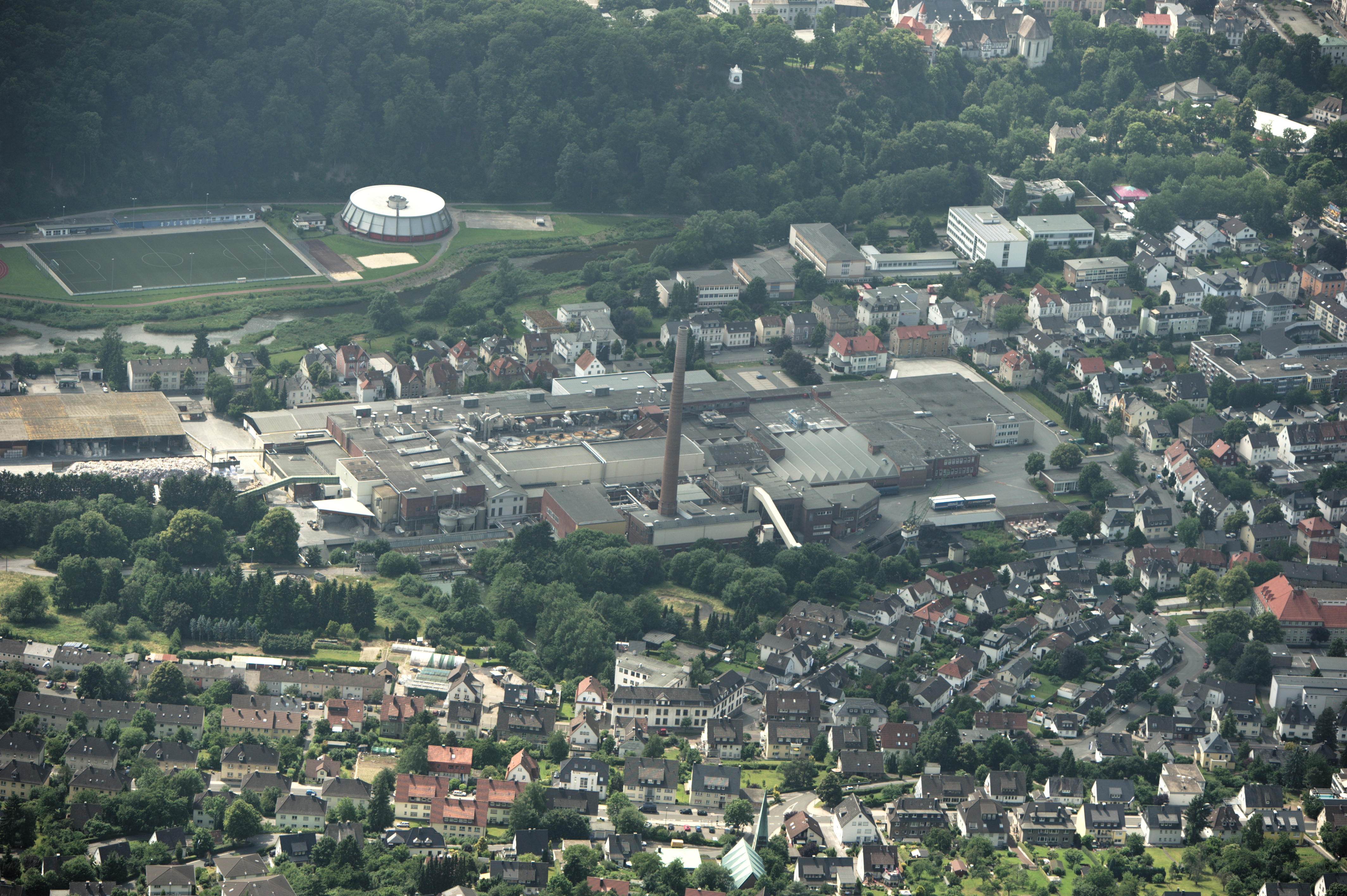 Fotoflug Sauerland-Ost - Arnsberg, Neustadt mit Werk Reno de Medici, Rundturnhalle, Eichholzsportplatz und Schulzentrum am Eichholz, The making of this document was supported by the Community-Budget of Wikimedia Germany.